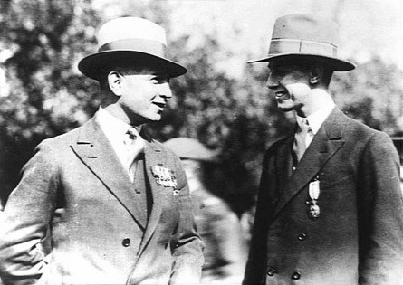 AWM caption : Melbourne, VIC, 1927-04-25. At the Anzac Day march, two winners of high awards for bravery chat to each other near the Exhibition Building (not in view). The man (left) is Corporal Issy Smith VC, a former member of the 1st Battalion, Manchester Regiment, while the other man is Stanley Gibbs who had recently been awarded the Albert Medal for rescuing a youth swimming at Port Hacking by fighting off an attacking shark with his hands and feet. The Duke of York had presented the medal to him in Sydney.